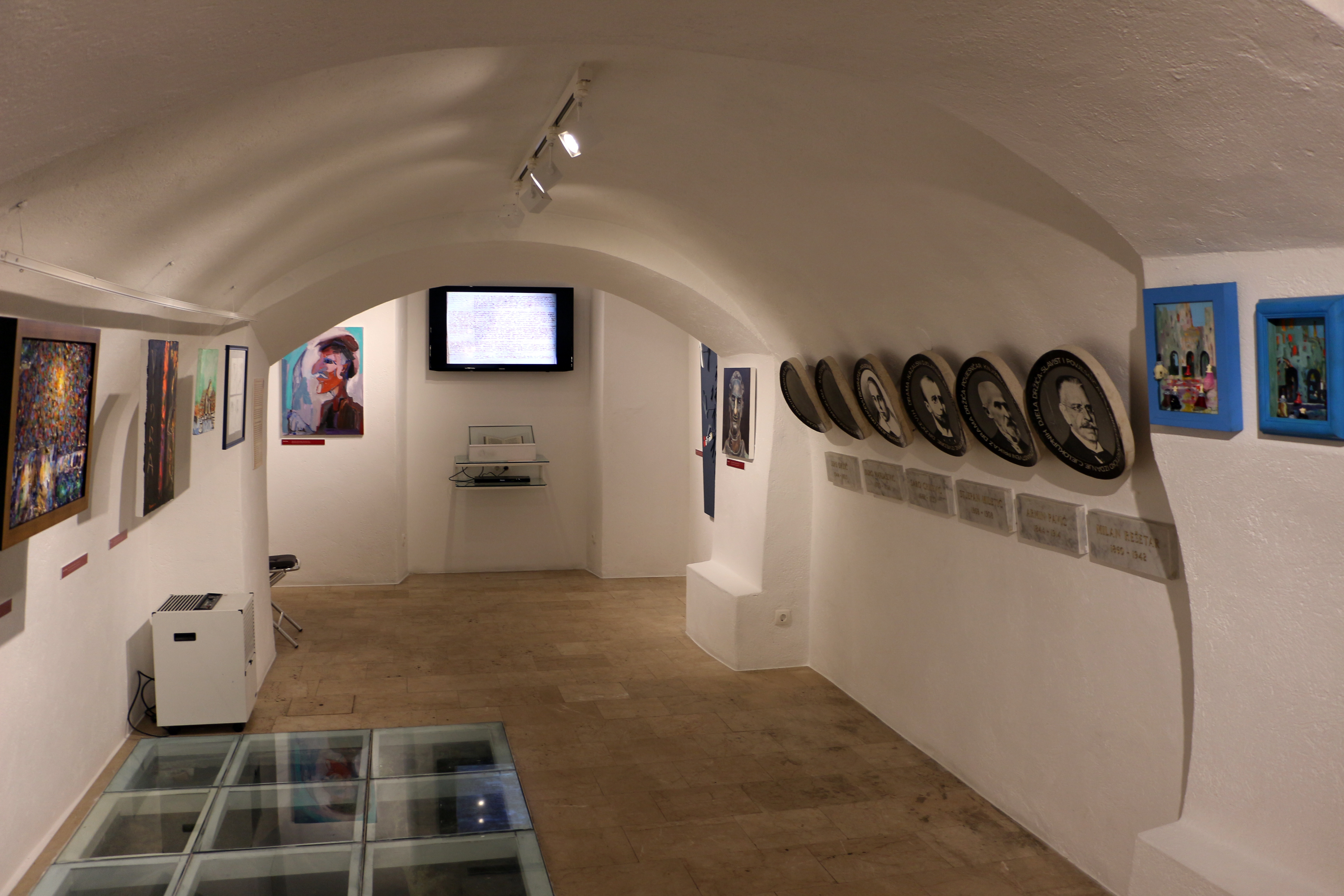 Dom Marina Držića